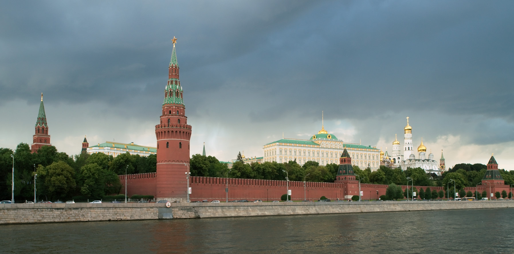 Moscow Kremlin, thunderstorm brewing